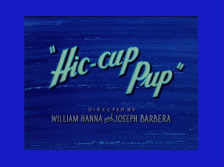 Hic-Cup Pup title card